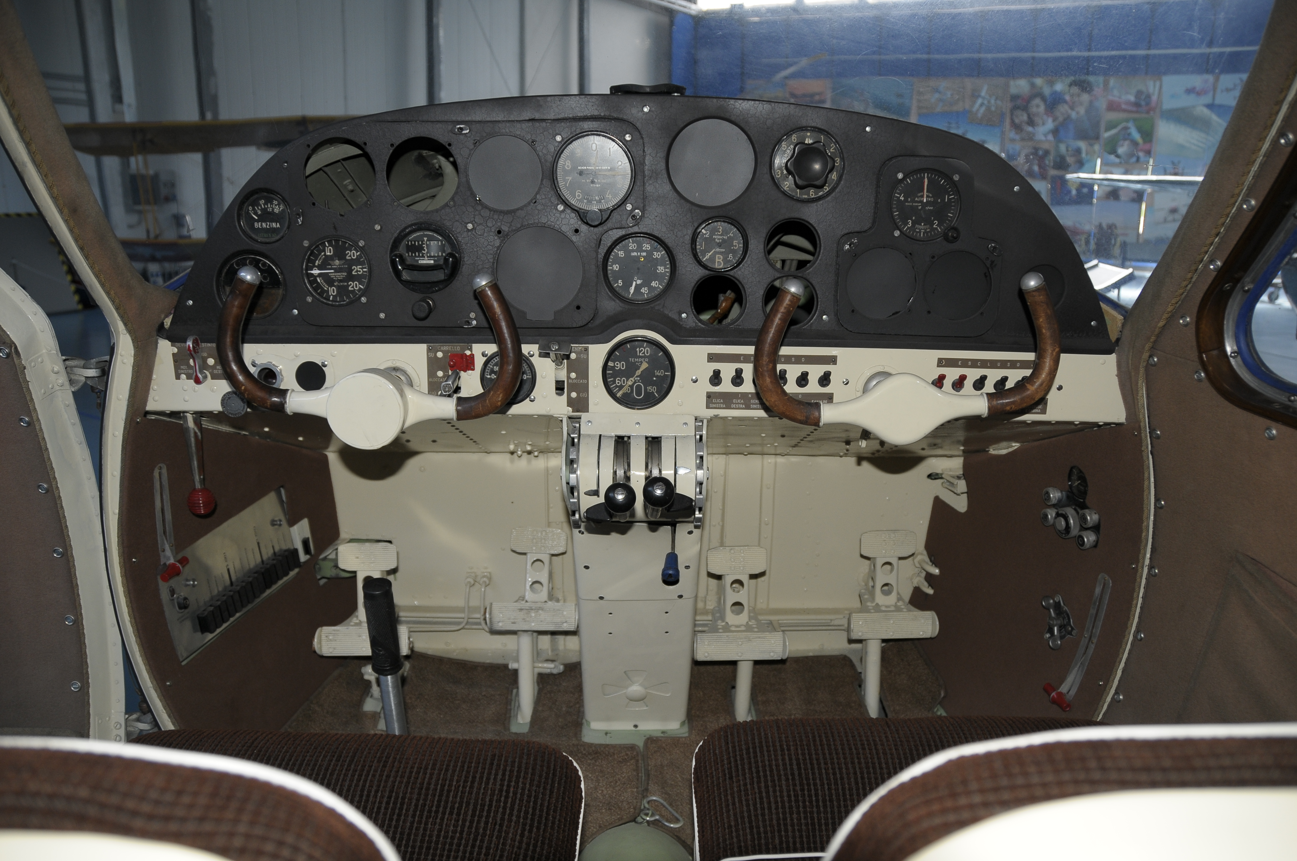 The cockpit of the Saiman 202M on display in the northern hangar of the Gianni Caproni Museum of Aeronautics in Trento, Italy.